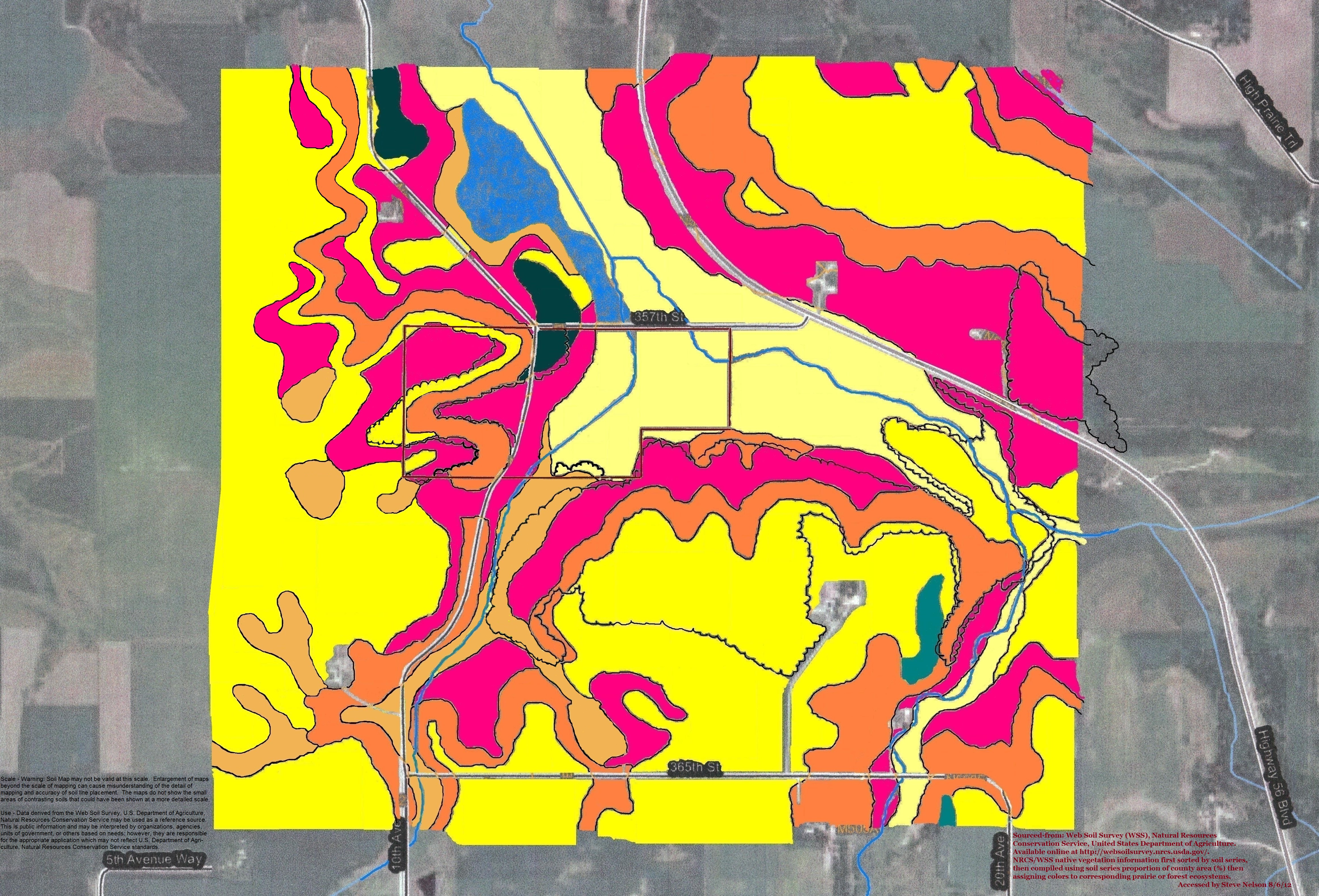 Colored map shows area around Warsaw State Wildlife Management Area (WMA), north of Wangs and east of Dennison, in Goodhue County, Minnesota. Most of this area is prairie ecosystems of savanna and prairie.